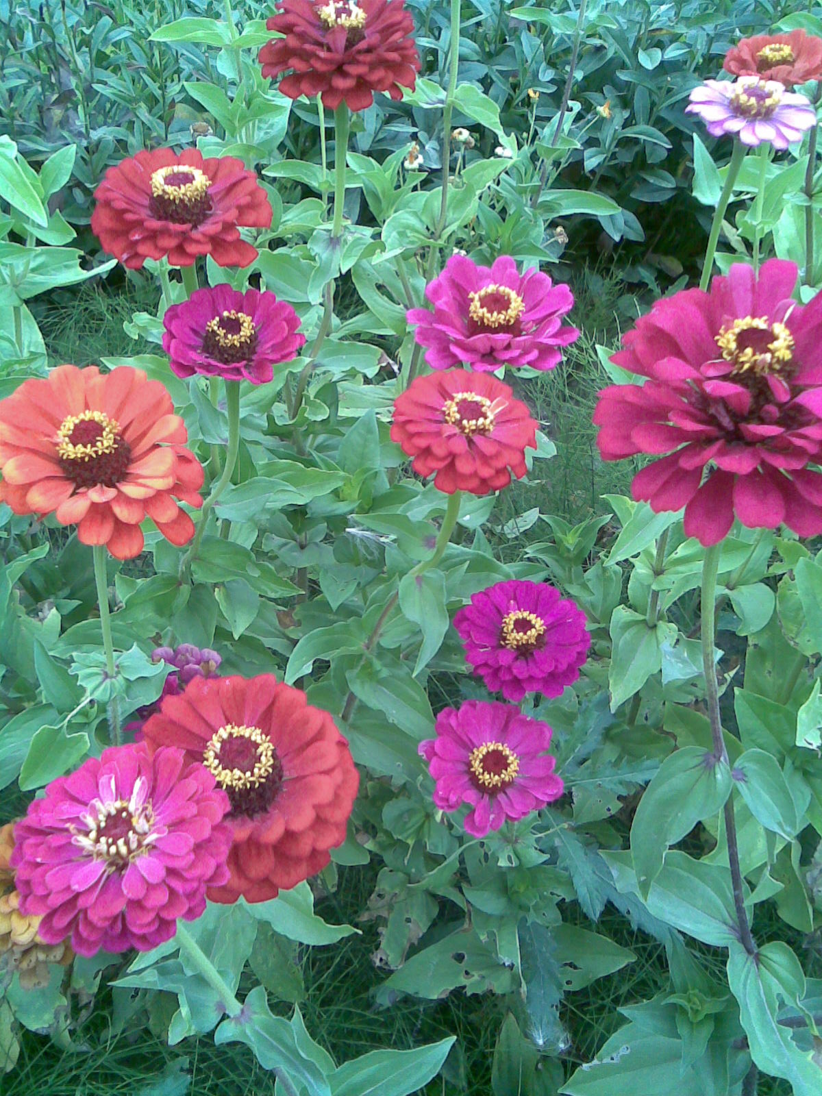 Zinnia elegans in my garden.